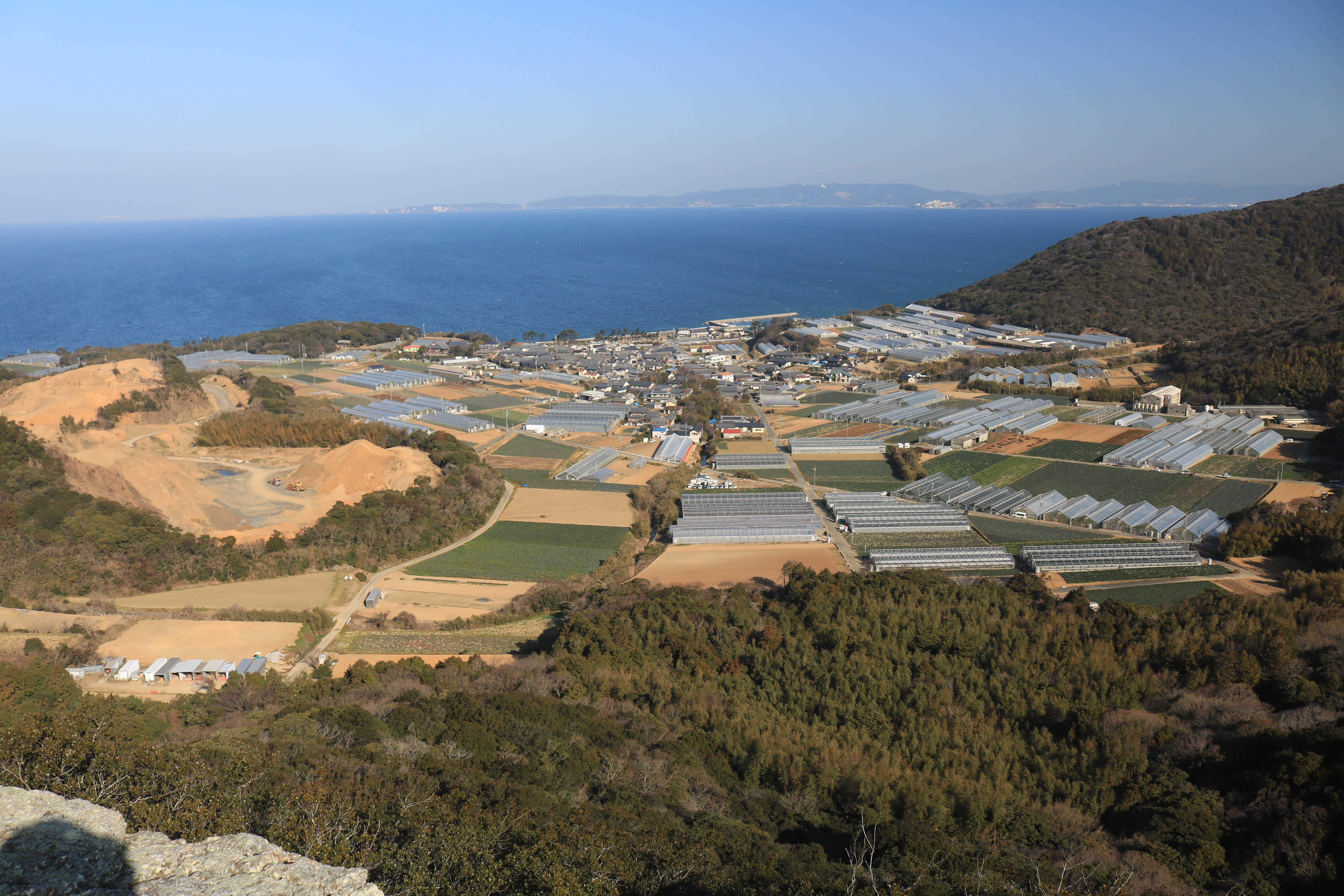 Uzuecho and Mikawa Bay seen from Mount Suribachi in Tahara, Aichi Prefecture, Japan.